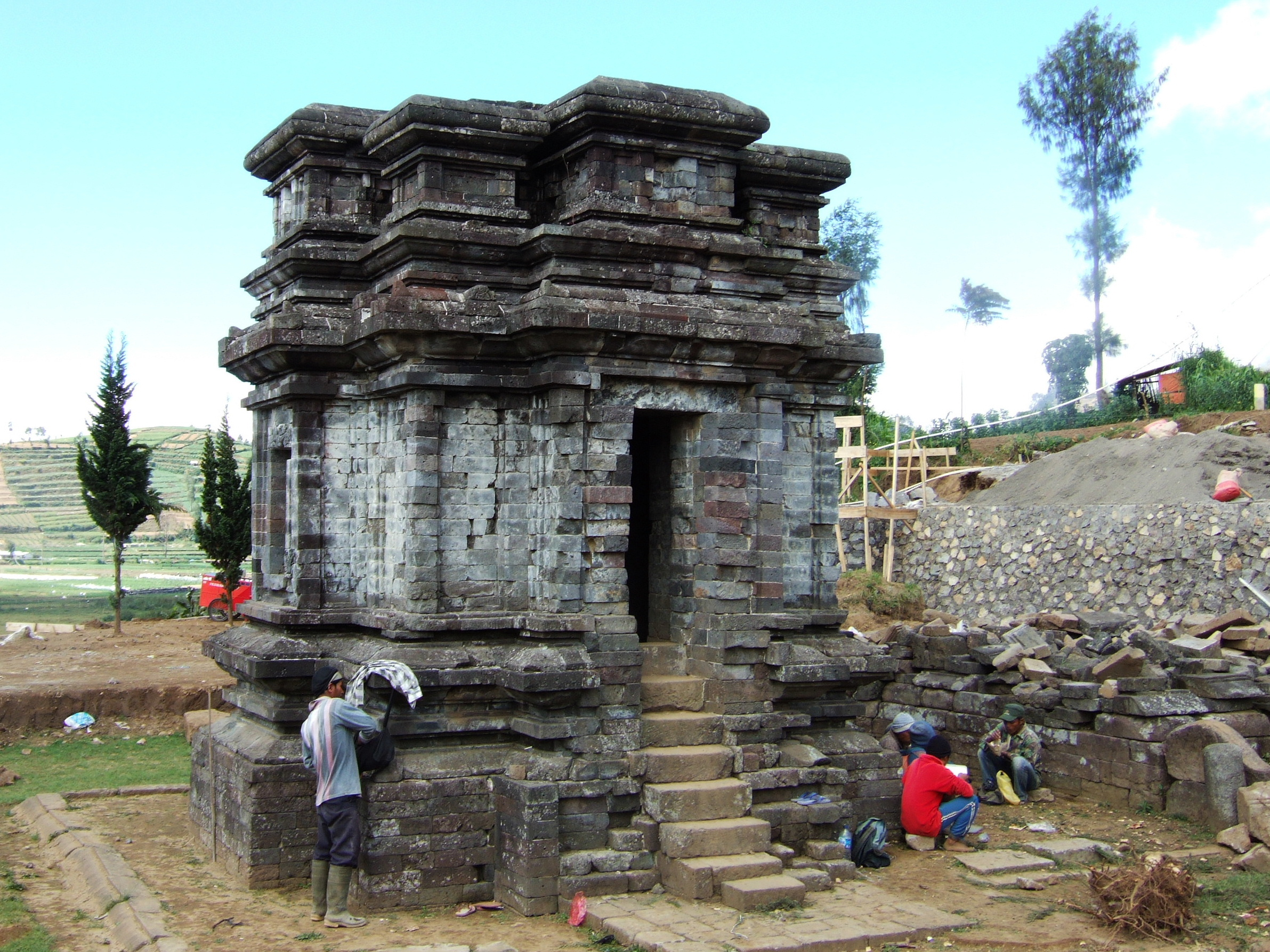 Gatotkaca temple, Dieng Plateau, Central Java, Indonesia